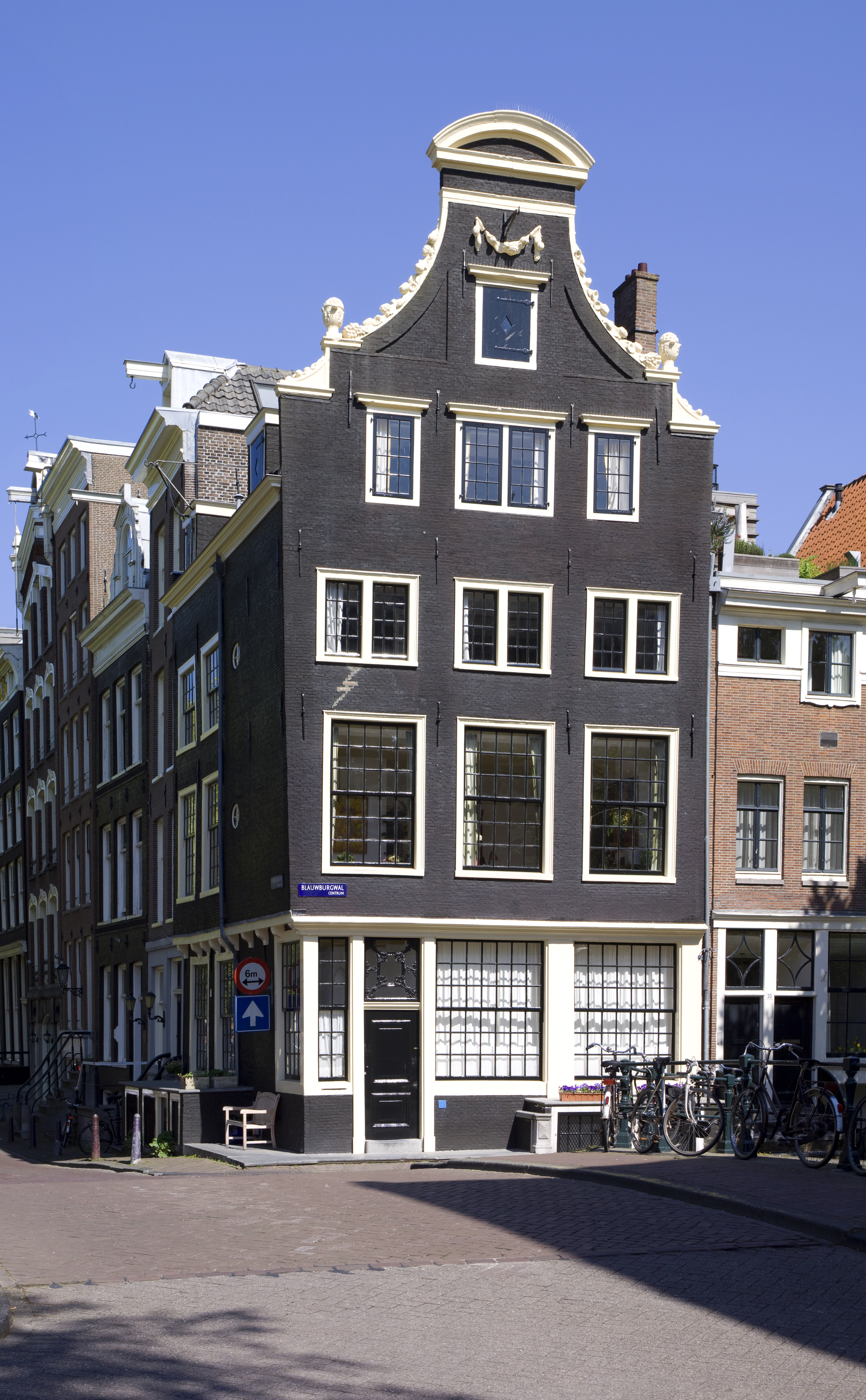 A vertical panorama of one of the many merchant's houses in Amsterdam, the Netherlands alongside the Blauwburgwal.